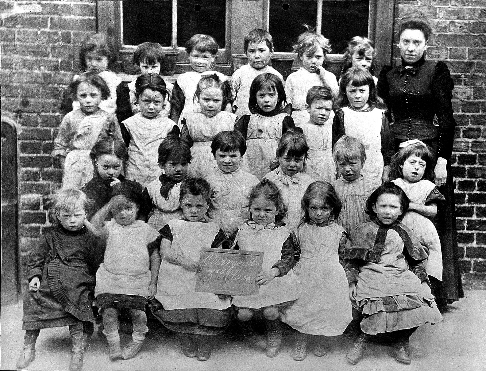 E.3/2, Scholars of Snowsfield School, Bermondsey, girls at the Orange Street School, 1894. Archives & Manuscripts